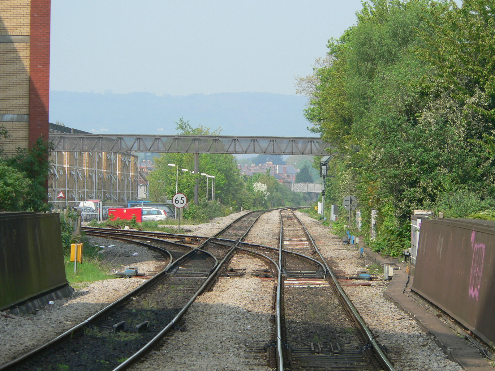 Looking north from the northern end of Cardiff Queen Street railway station. At the junction, trains for Rhymney and Coryton take the route straight ahead, while services towards Merthyr Tydfil, Aberdare and Treherbert bear left.